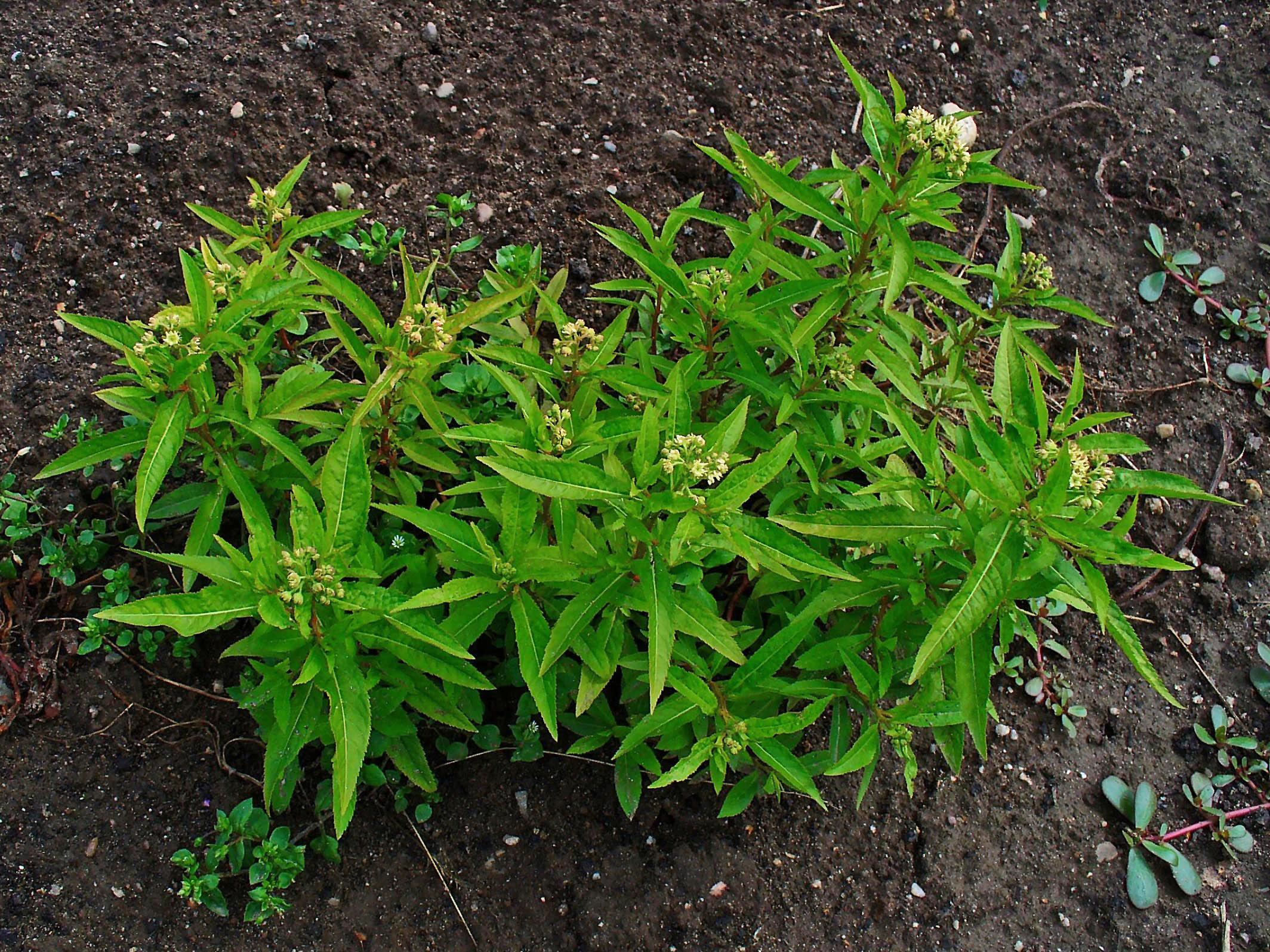 Penthorum sedoides, Penthoraceae, Virginian Stonecrop, habitus; Stutensee, Germany.